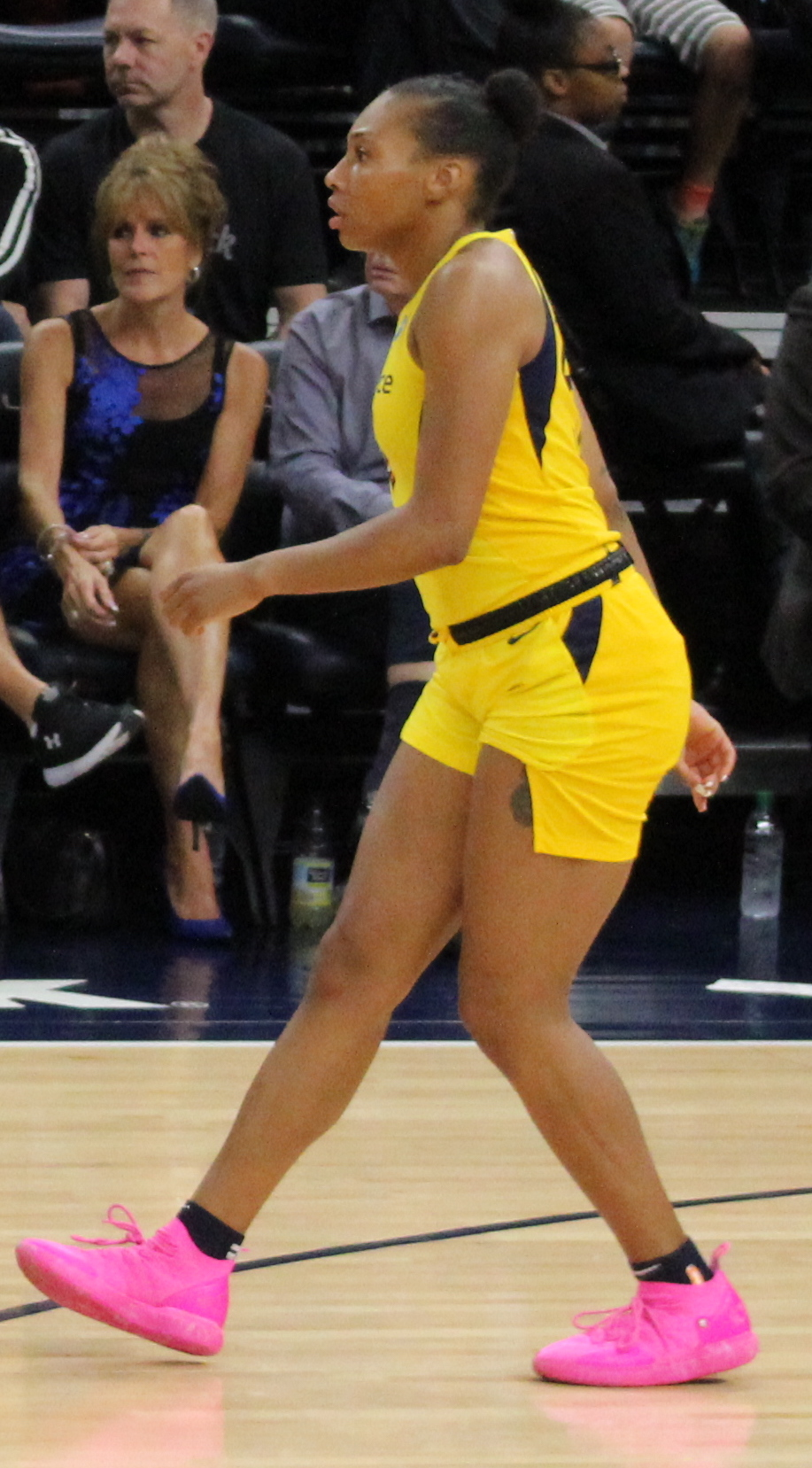 Betnijah Laney of the Indiana Fever